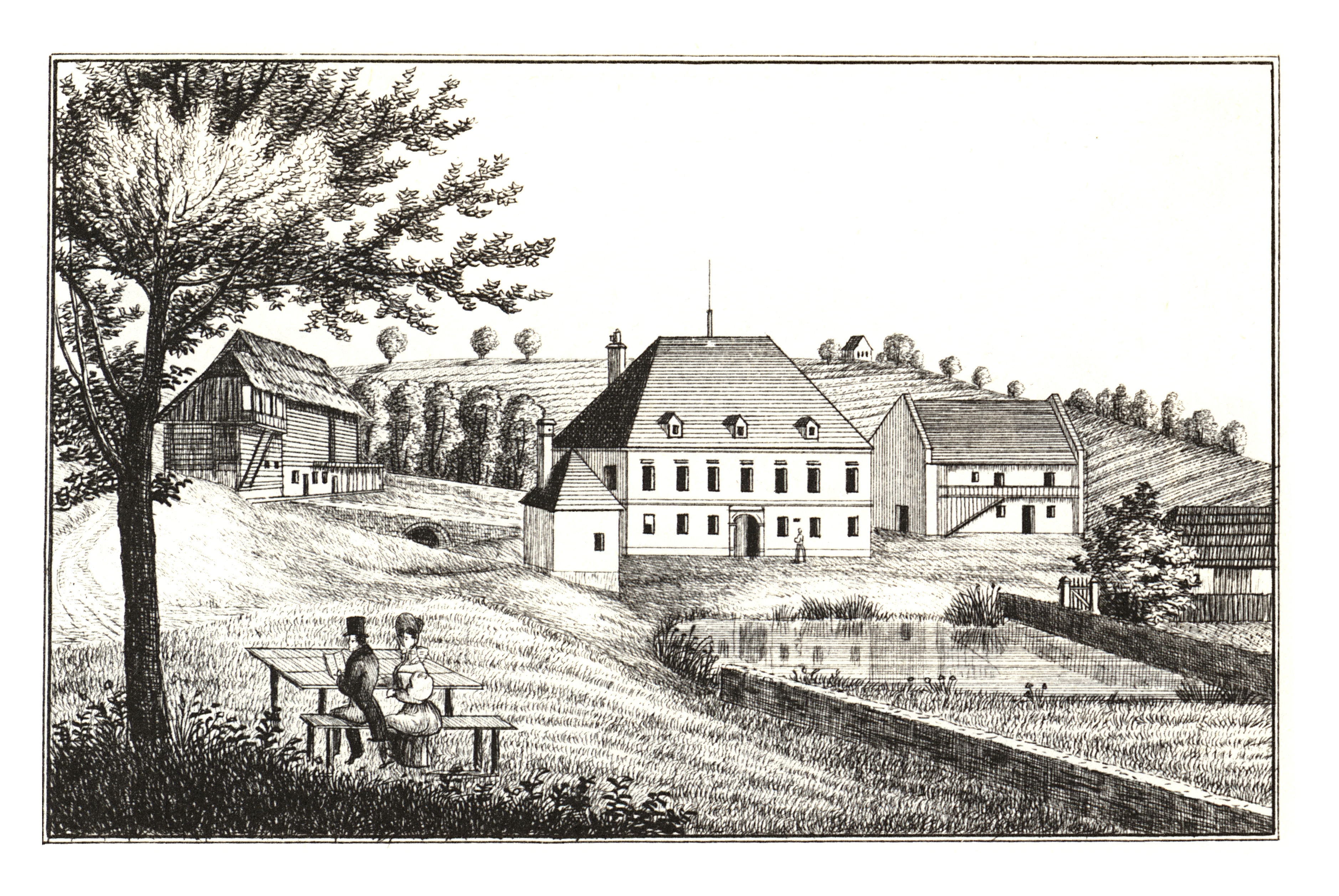 J. F. Kaiser - lithographirte Ansichten der Steyermärkischen Städte, Märkte und Schlösser, Graz 1824-1833 Joseph Franz Kaiser (1786–1859) Alternative names J. F. KaiserDescriptionAustrian printer and editorDate of birth/death 11 March 1786 19 September 1859Location of birth/death Graz (Styria) GrazAuthority control : Q1499963 VIAF: 30629353 ISNI: 0000 0000 3083 0153 LCCN: n87141671 GND: 129880159 NLP: A24960305 WorldCat creator QS:P170,Q1499963 . Scanprojekt Community Projektbudget 2012 This scan or this PDF-file was created within the GLAM-project Bookscanning, supported by Wikimedia Germany and Wikimedia Austria as a part of the community-project to capture books, documents and pictures which are not eligible to copyright or for which the copyright has expired. This document describes or depicts an object which is located in Austria today. Send requests for uncompressed scans to Hubertl. This work is in the public domain in its country of origin and other countries and areas where the copyright term is the author's life plus 100 years or less. You must also include a United States public domain tag to indicate why this work is in the public domain in the United States. This file has been identified as being free of known restrictions under copyright law, including all related and neighboring rights.